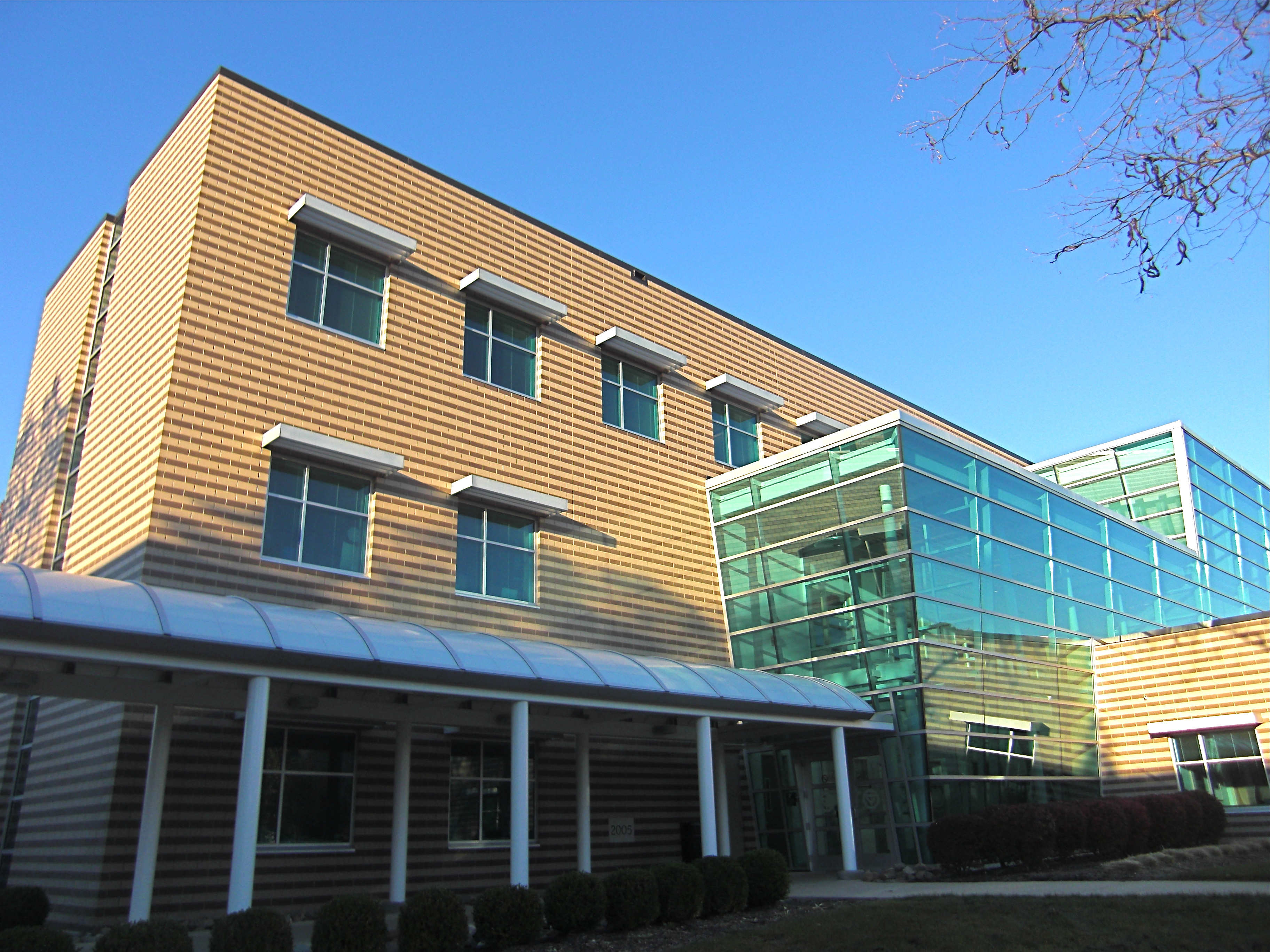 Lake Ontario Hall at Grand Valley State University-Allendale campus.